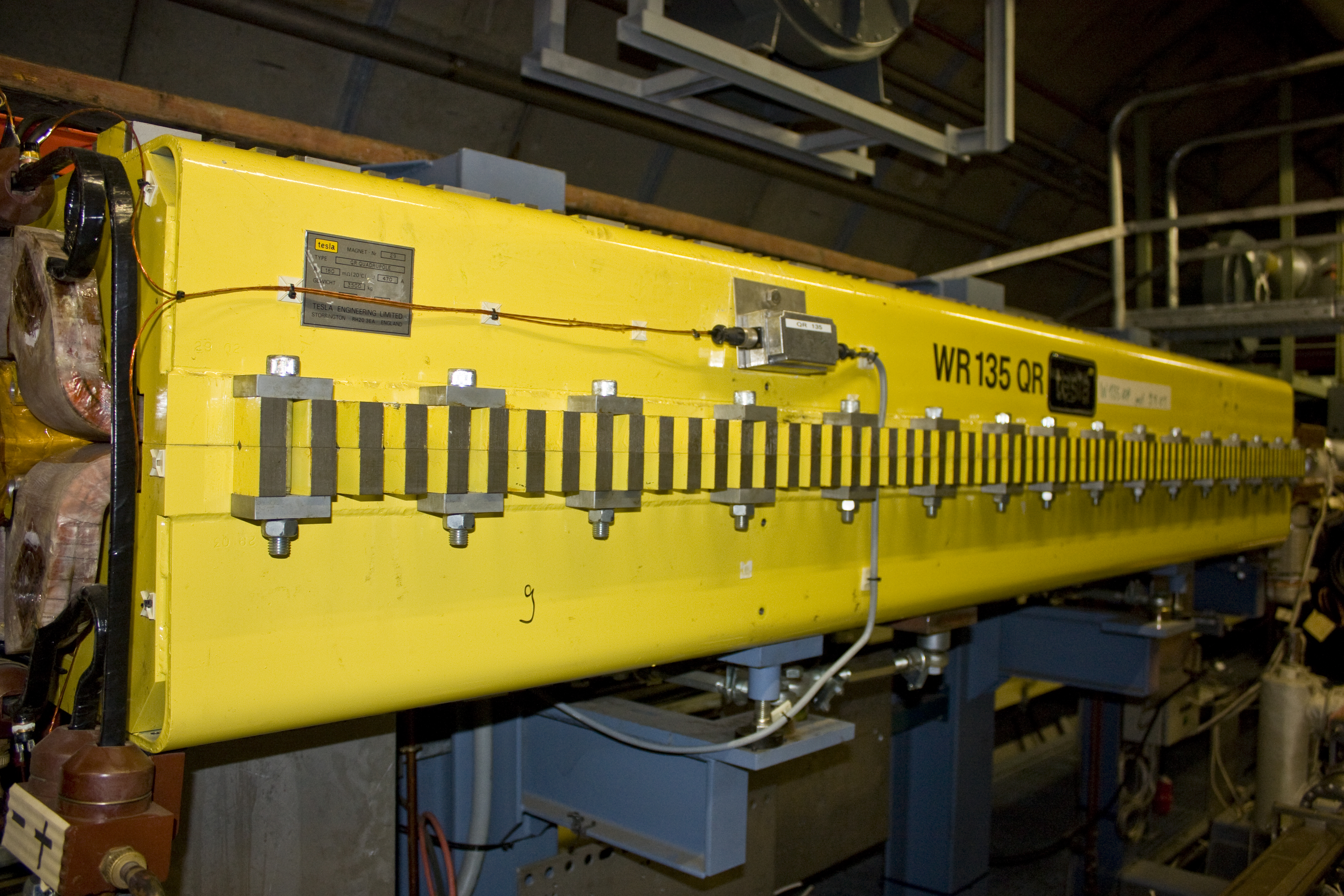 Tesla Quadrupole at HERA Particle accelerator at DESY Hamburg Germany